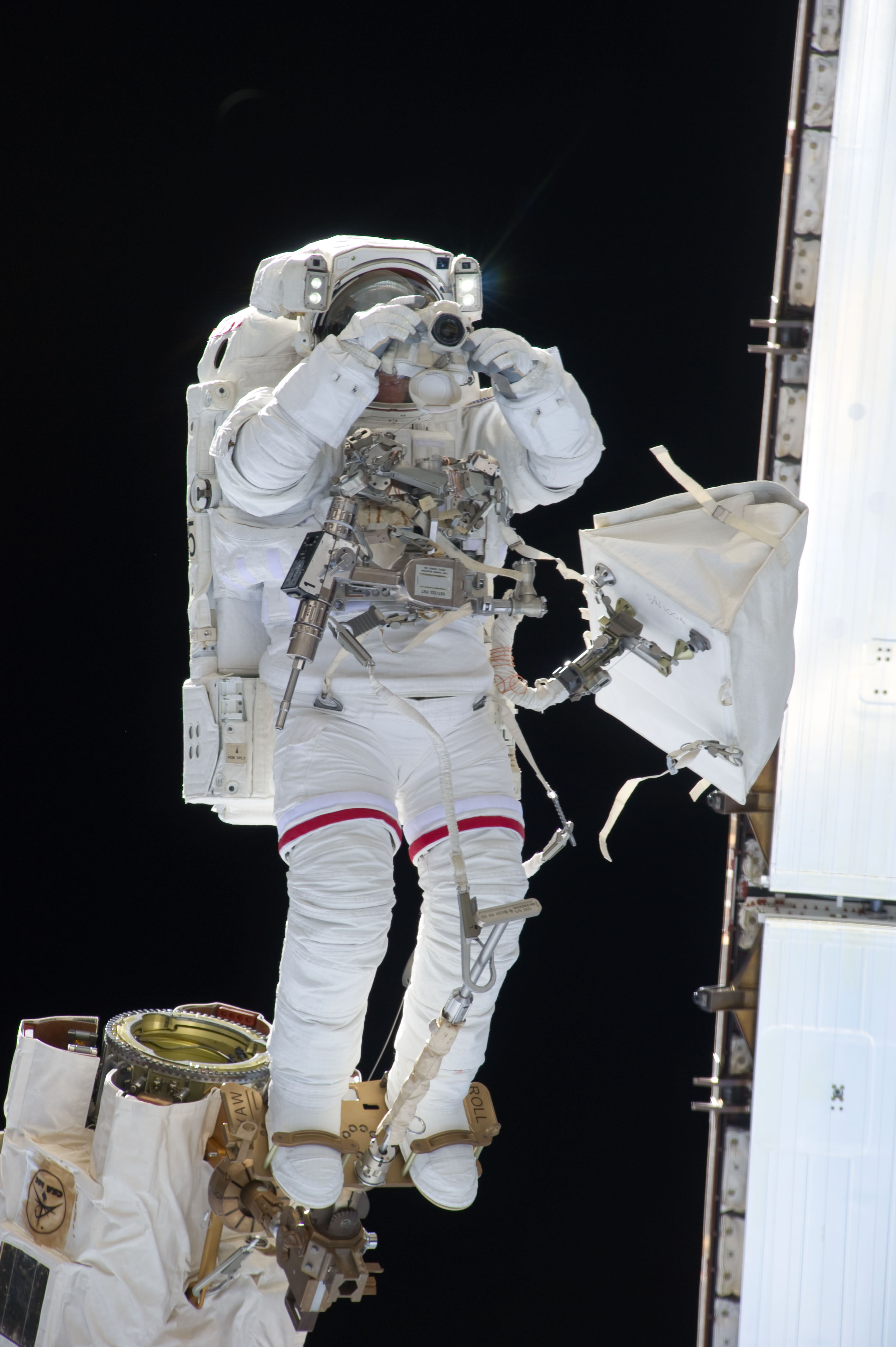 Anchored to a Canadarm2 mobile foot restraint, NASA astronaut Steve Bowen, STS-133 mission specialist, participates in the mission's second session of extravehicular activity (EVA) as construction and maintenance continue on the International Space Station. During the six-hour, 14-minute spacewalk, Bowen and astronaut Alvin Drew (out of frame), mission specialist, tackled a variety of tasks, including venting into space some remaining ammonia from a failed pump module they moved during the mission's first spacewalk.